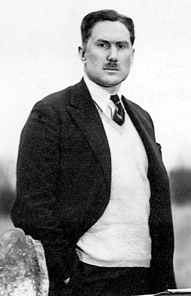 George Eyston and James Palmes with burnout M.G. Midget. Used by Eyston (at Brooklands 9/3/1931) to attack Sir Malcolm Cambell's record for the flying mile. Photograph is the property of the Palmes family of Naburn.